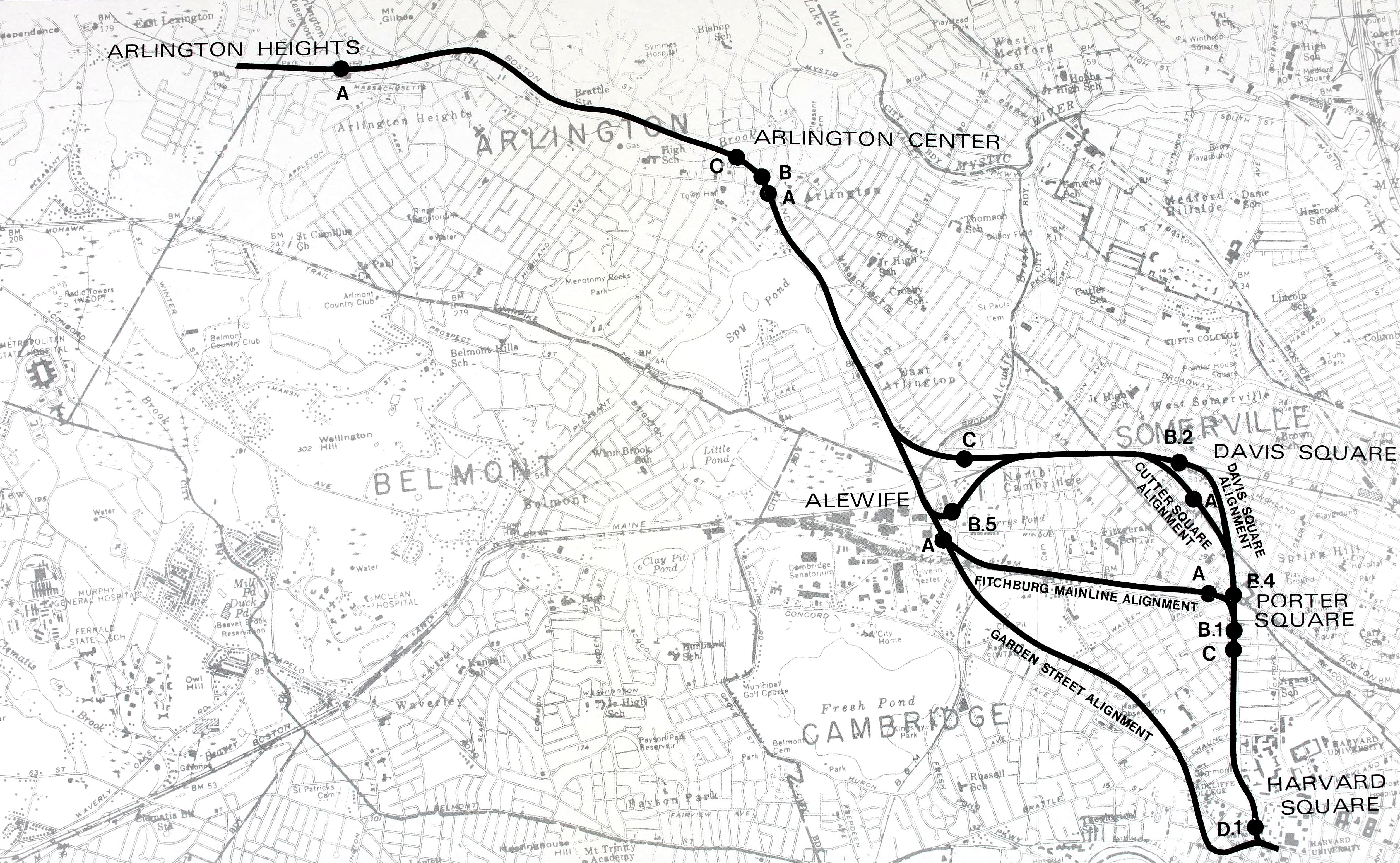 Map of the alternative alternatives for the Red Line Northwest Extension, published in the 1977 Environmental Impact Statement. The route chosen was via Davis Square, with station locations D-1 (Harvard), B-4 (Porter), B-2 (Davis), B-5 (Alewife), A (Arlington), and A (Arlington Heights). The Arlington portion was cancelled; only the portion to Alewife plus a short section of tunnel towards Arlington for tail tracks was actually built.